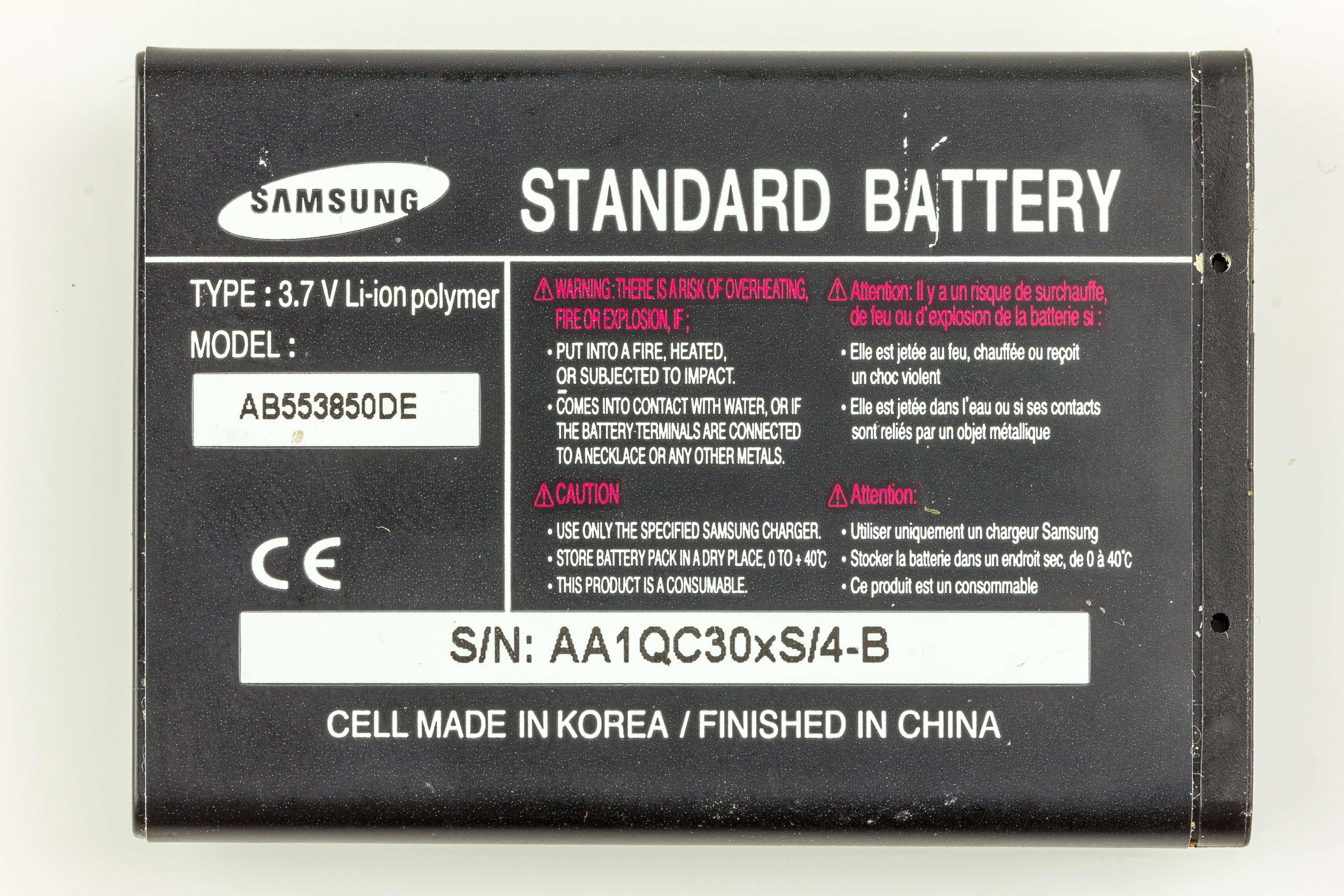 Samsung 3.7V Li-ion polymer battery, Model AB553850DE. Used in a Samsung SGH-D880 mobil phone